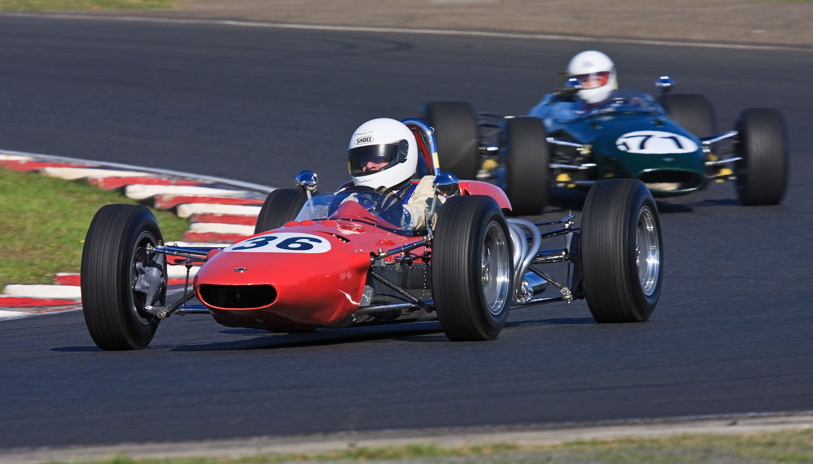 36 Elfin Mono at Eastern Creek Raceway.